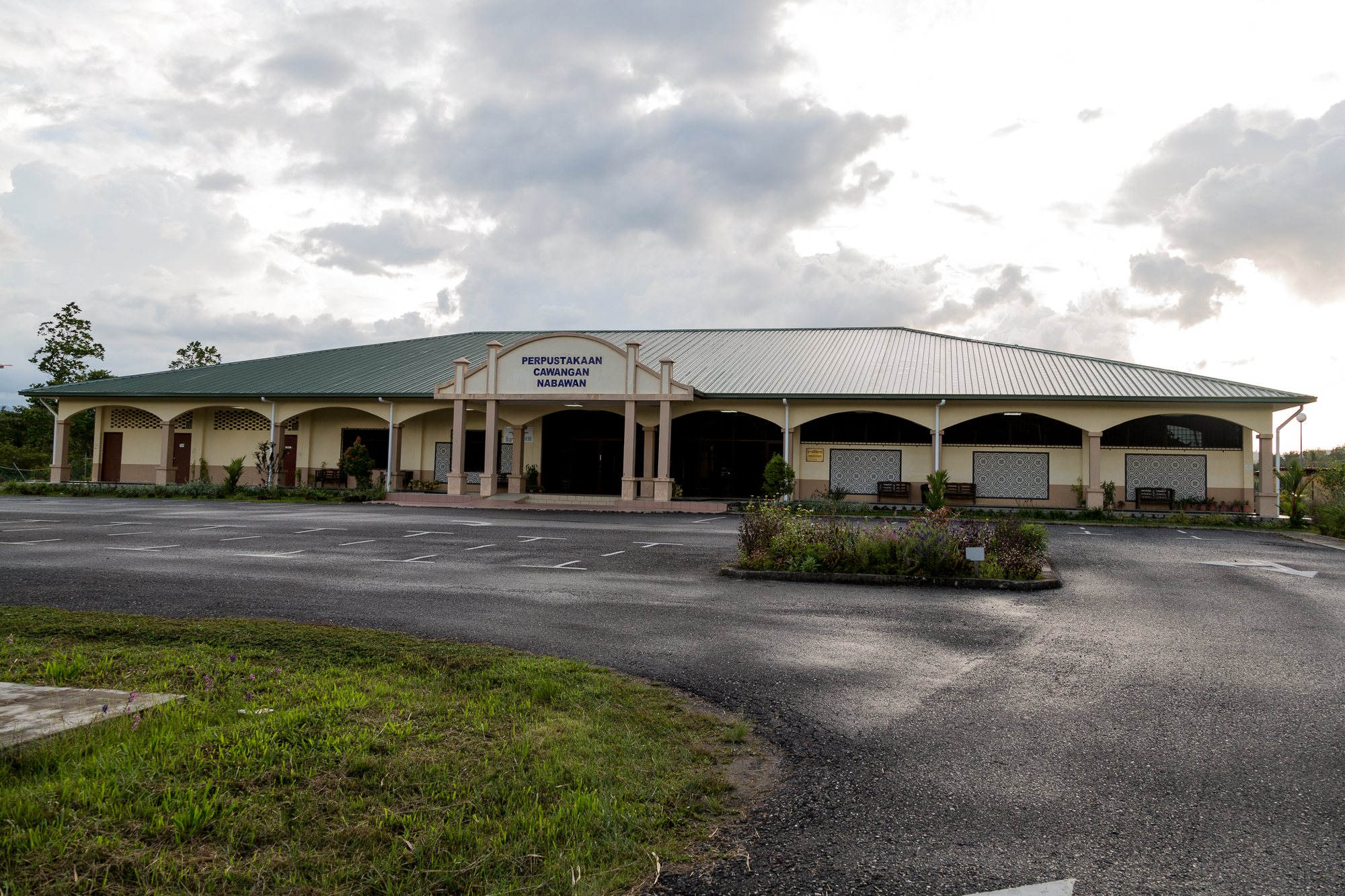 Nabawan, Sabah: Nabawan Branch Library (Perpustakaan Cawangan Nabawan)